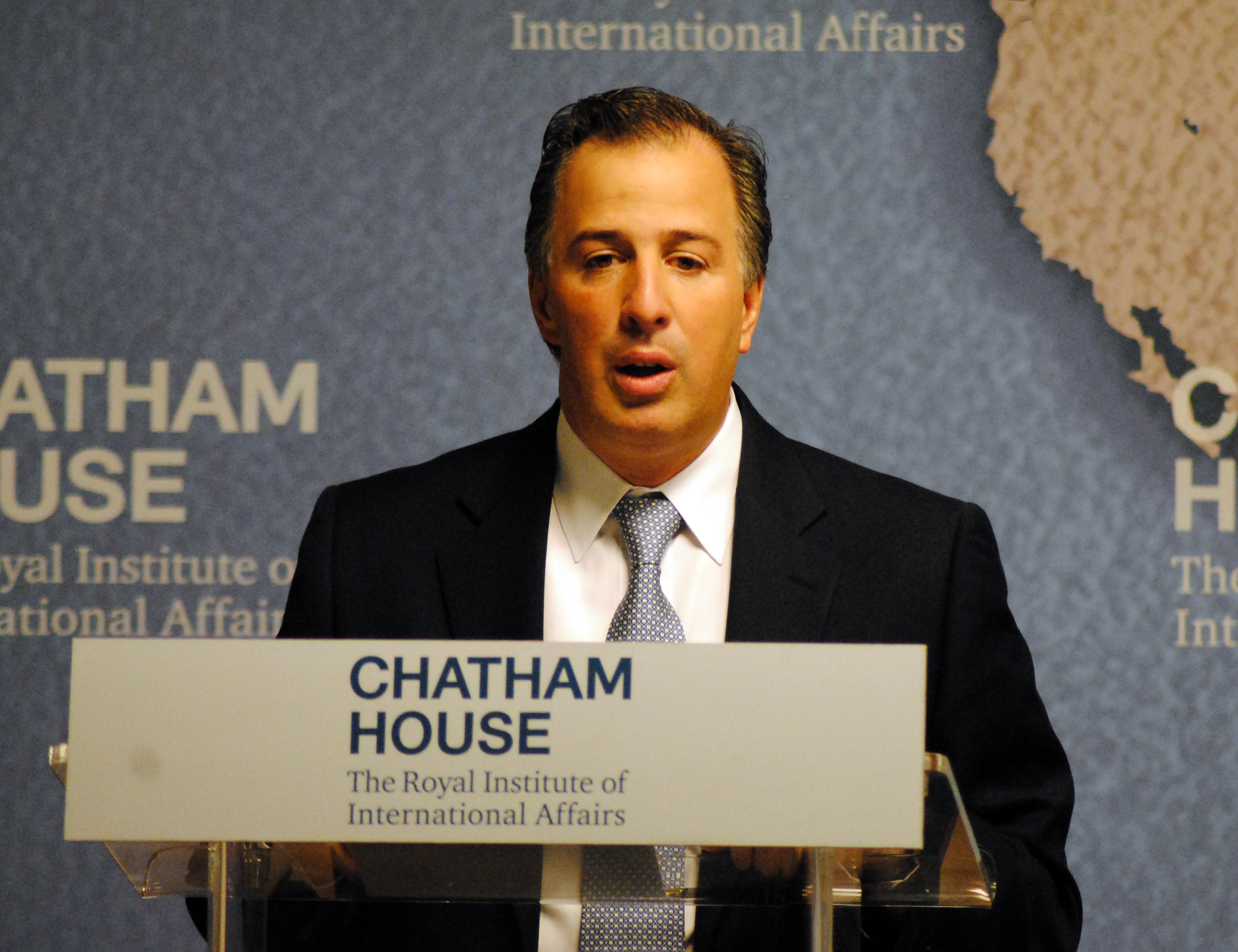 Mexico's Foreign Policy: Leveraging the Domestic Transformation, 13 June 2014, cht.hm/1nPBqxx